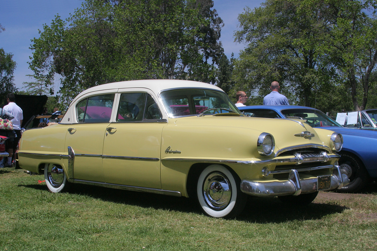 1954 Plymouth Belvedere 4d - yellow white - fvr2